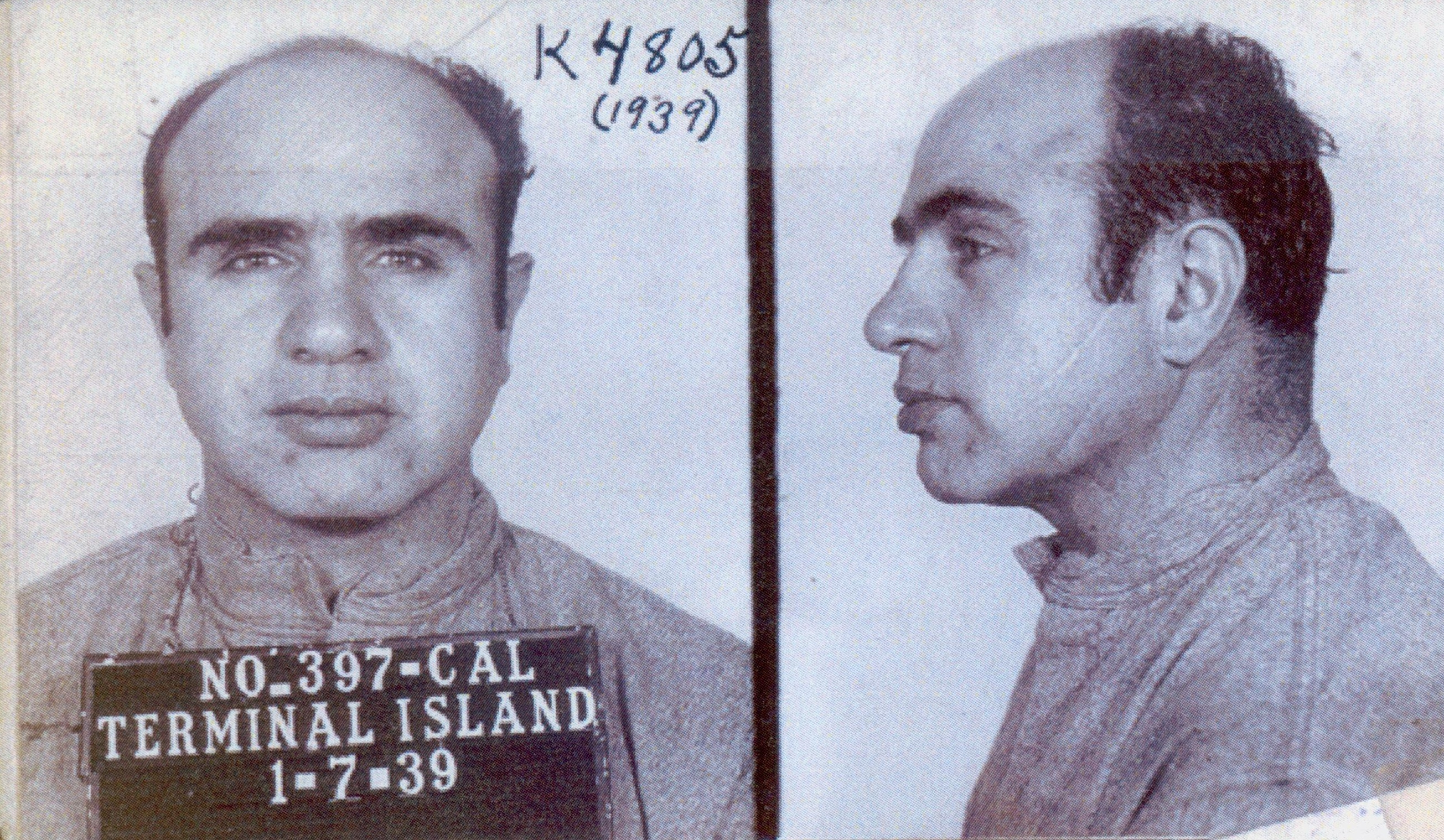 The day Al Capone arrived to the Federal Correctional Institution at Terminal Island in California